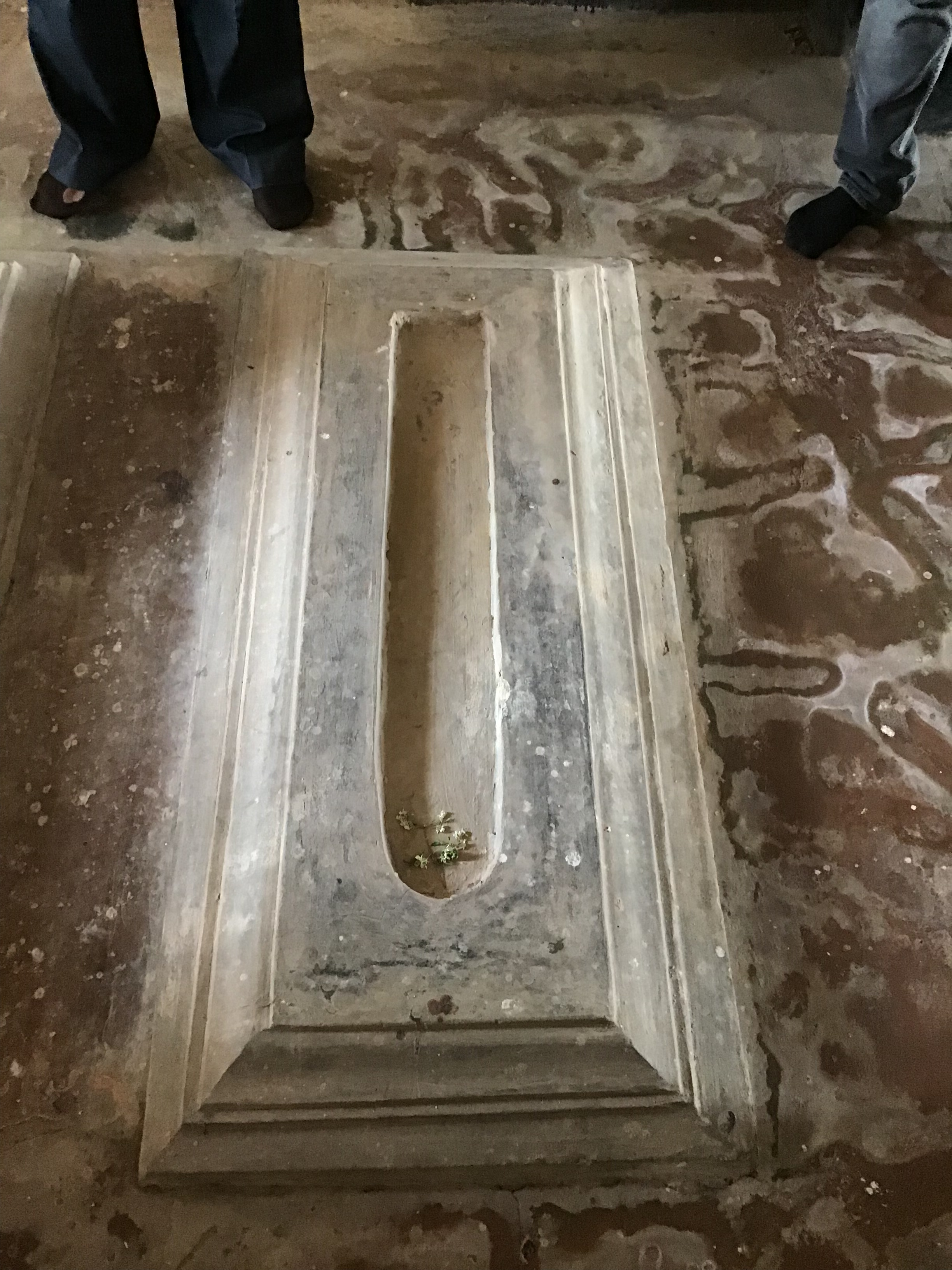 Tomb of Lutfunnisa Begum (wife of Siraj ud-Daulah) at Khosbag, Murshidabad